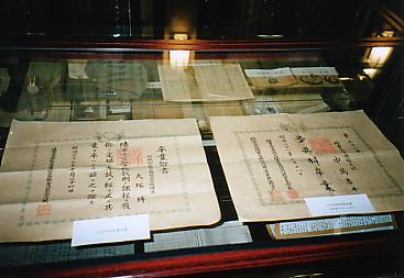 Imperial Japanese Army Academy diplomas